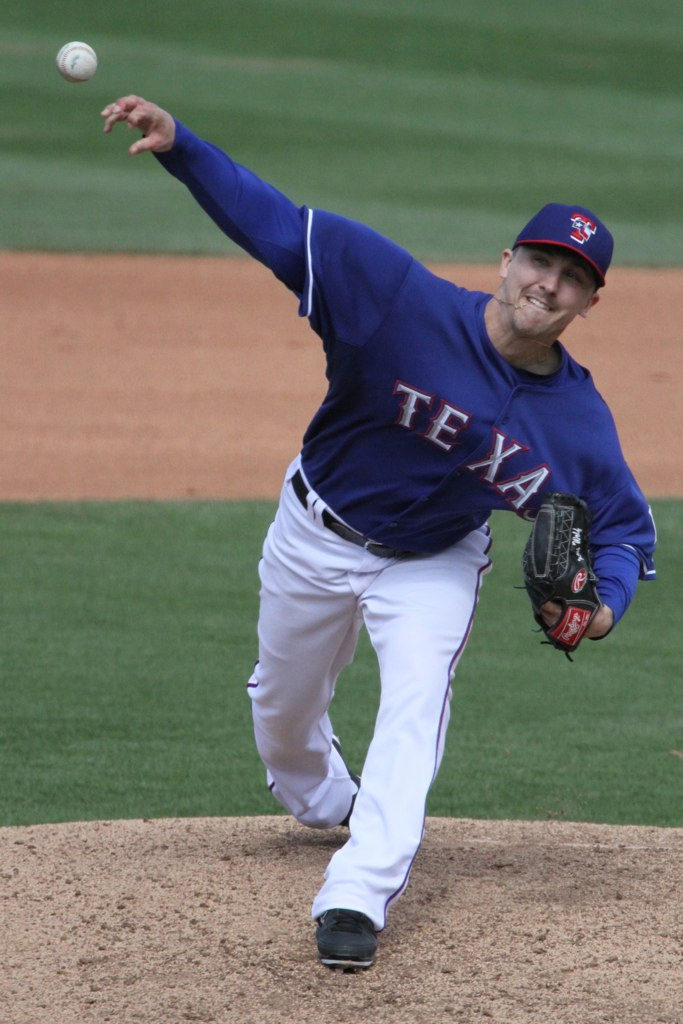 Ross Wolf delivers a pitch for the Texas Rangers during a 2013 spring training game in Arizona.